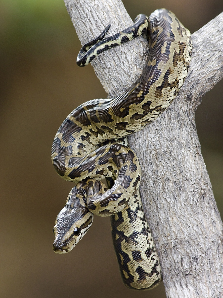 Baby Southern African Python (Python natalensis) at Koedoesdraai, Limpopo district, South Africa